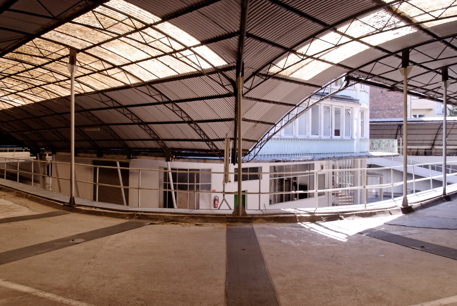 Garagenanlage, Erftstraße 9 to 11 in Düsseldorf-Unterbilk, Germany This is a photograph of an architectural monument.